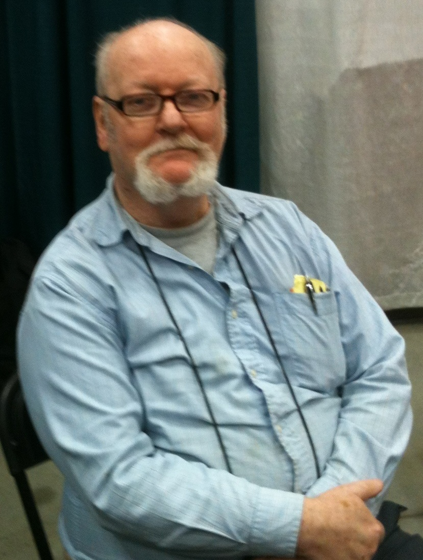 Game designer Rick Loomis at Gen Con Indy 2014 on August 15, 2014.